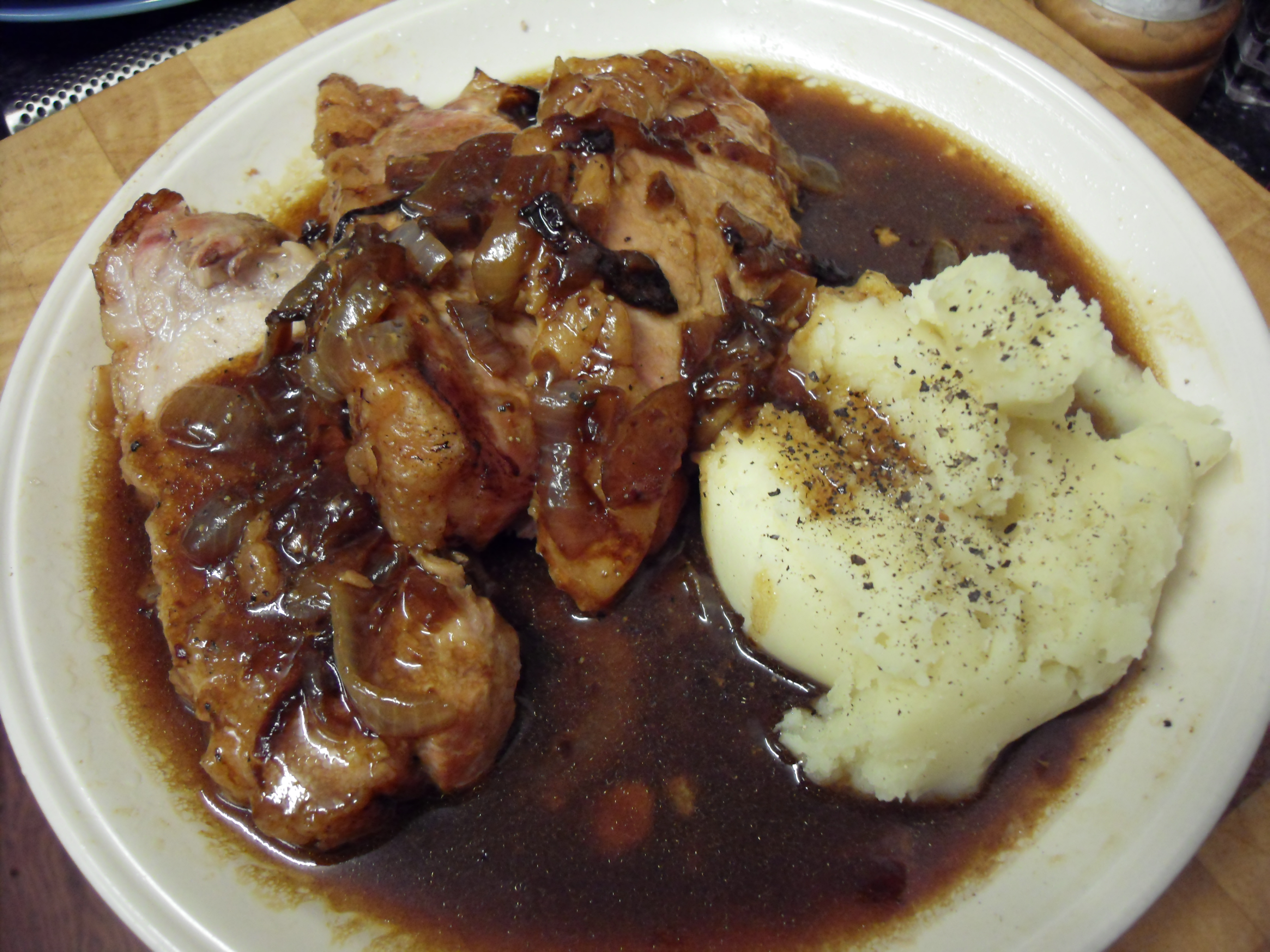 Roast pork loin